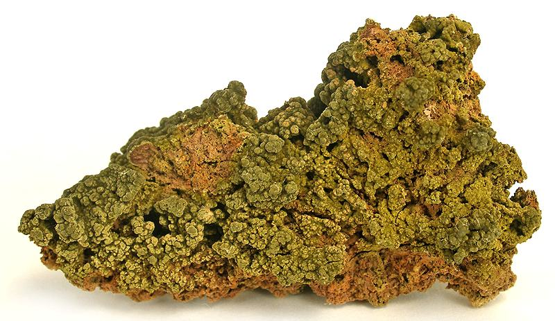 Descloizite Locality: Globe, Globe Hills, Globe Hills District, Globe-Miami District, Gila County, Arizona, USA (Locality at ) Size: small cabinet, 6.0 x 3.8 x 3.4 cm Cuprian Descloizite This specimen is from an unusual locality. Cuprian descloizite occurs here as a rich greenish druse atop the host matrix. Ex. John White Collection.